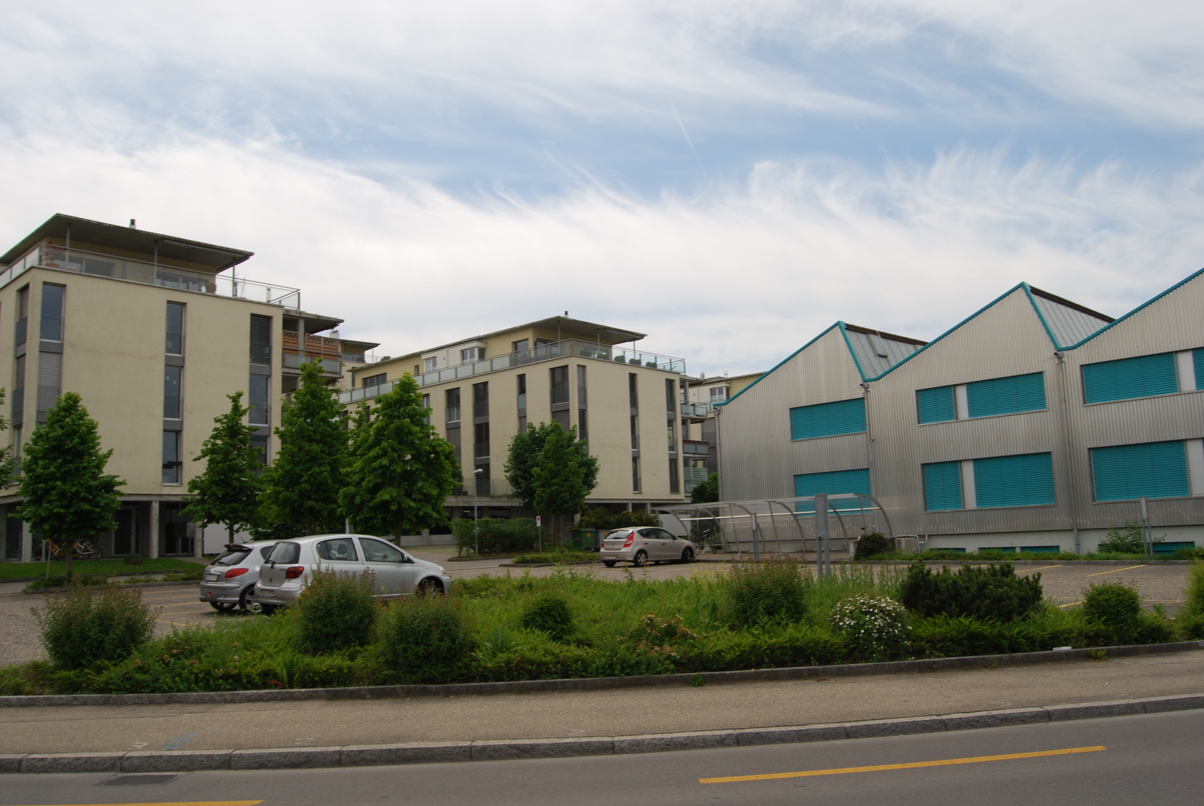 Port, canton of Bern, SwitzerlandEsperanto: Port, Kantono Berno, Svislando